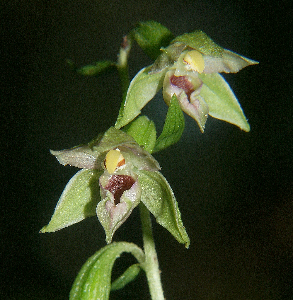 Epipactis leptochila subsp. leptochila, Hohenlohe, Germany